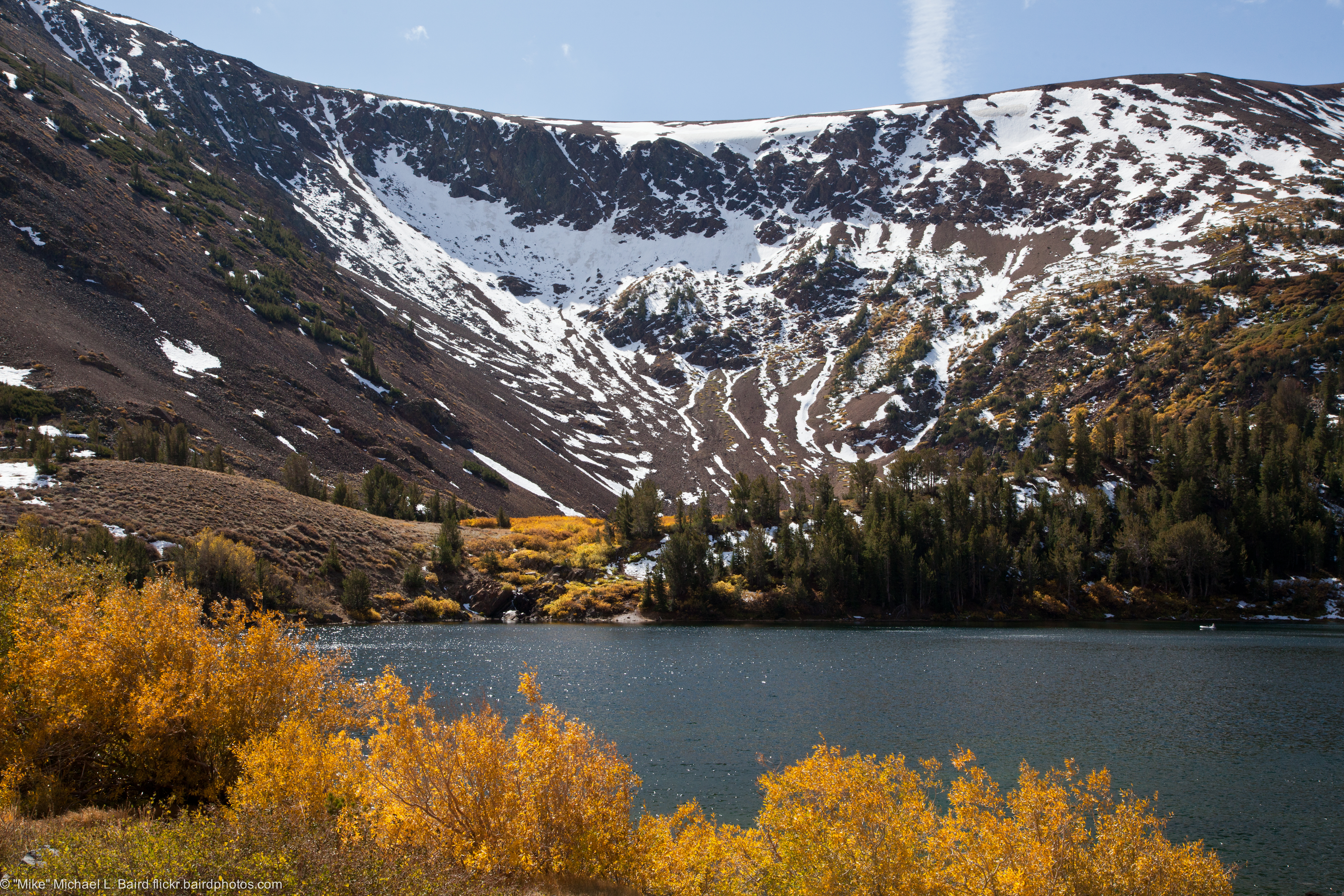 Big Virginia Lake, Virginia Lakes south of Lee Vining CA. Aspen Tree Fall Yellow Color off Tioga Pass and Conway Summit north of Lee Vining CA off Virginia Lake Road.